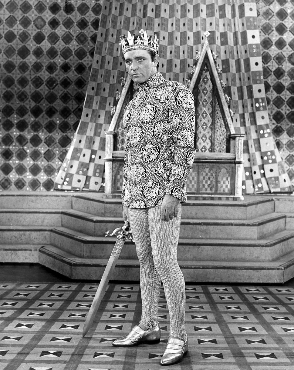 Photo of Richard Burton as King Arthur from the original Broadway production of Camelot.